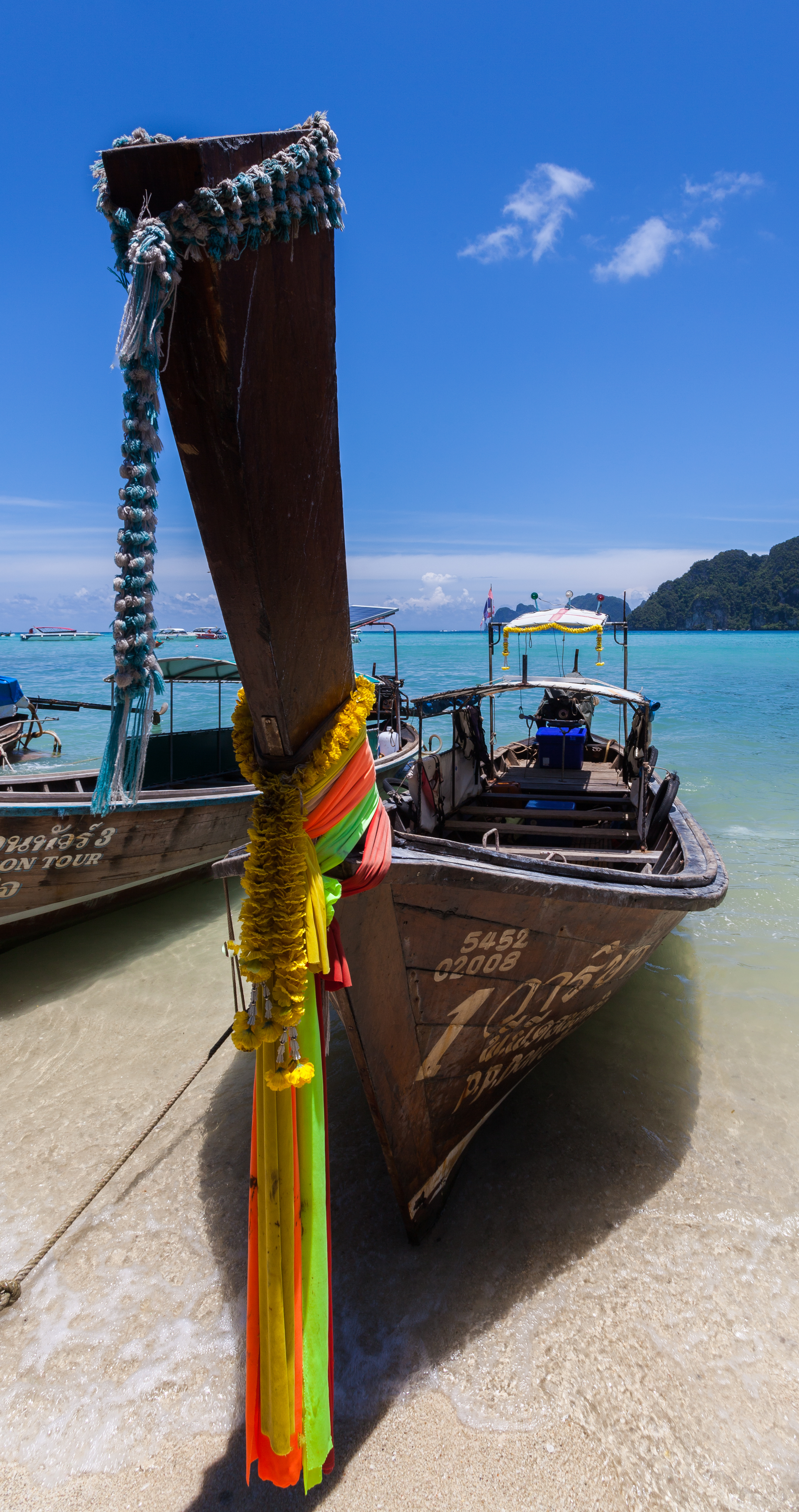 Ko Phi Phi Don Island, Thailand